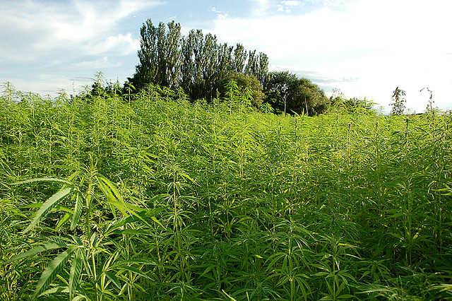 Hemp maze (industrial hemp) at the "Späth'schen Baumschulen" (tree/plant nursery), Berlin, Germany, 2009